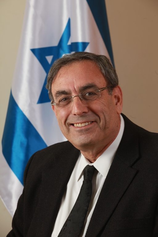 Michael Spitzer